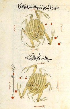 Crab constellation in Abd al-Rahman al-Sufi astronomy treaty